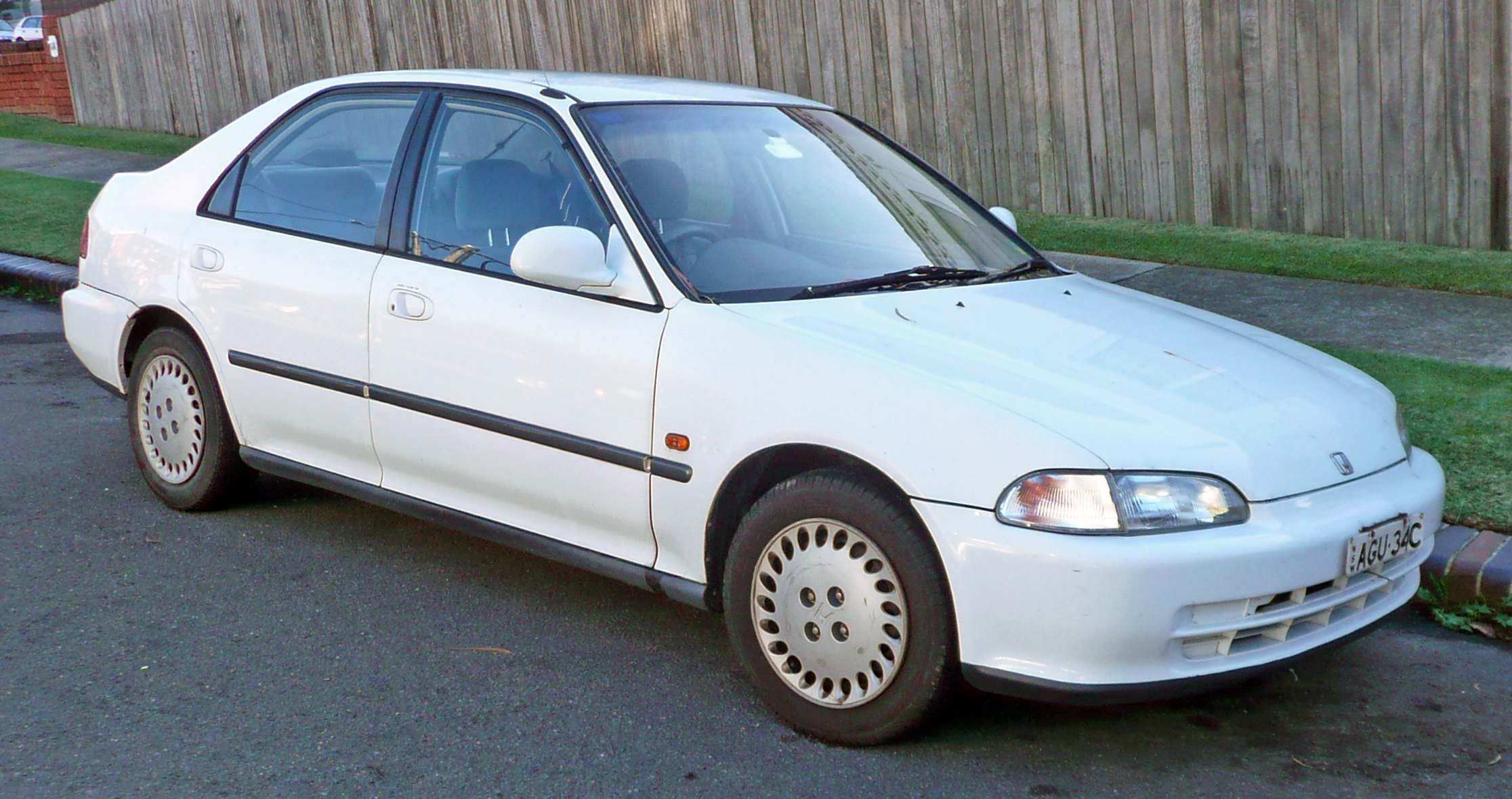 1993–1995 Honda Civic sedan. Photographed in Cronulla, New South Wales, Australia.